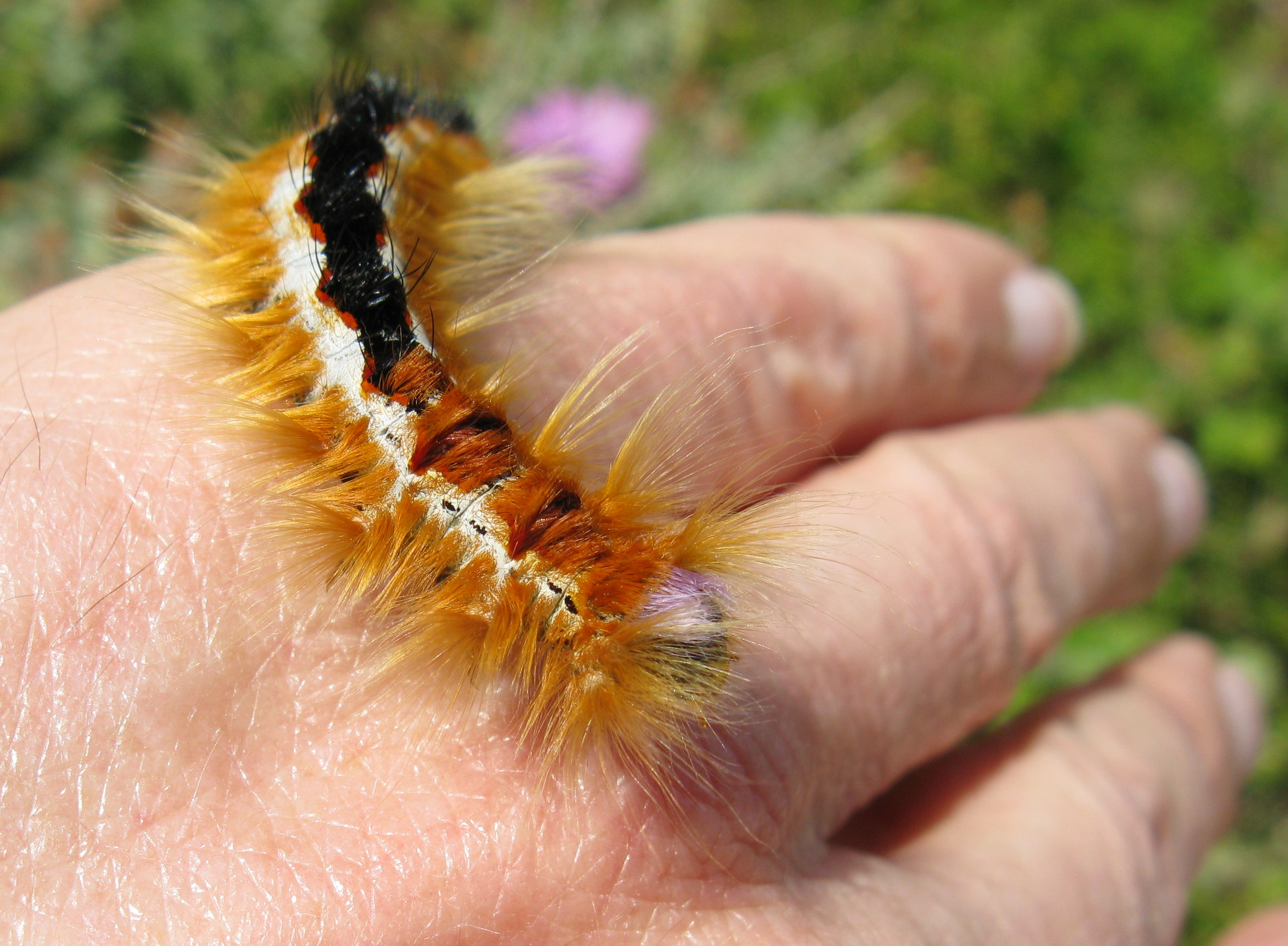 Probably the commonest lappet moth species in the Western Cape of South Africa. All the shortish bristles are urticating, especially the transverse orange and dark maroon bands that the caterpillar displays across the thorax, but the black areas down the back also are to be avoided. People unfamiliar with the insect are better off not handling it.